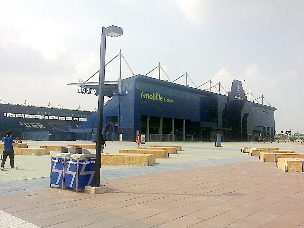 Thunder Castle Buriram, Thailand